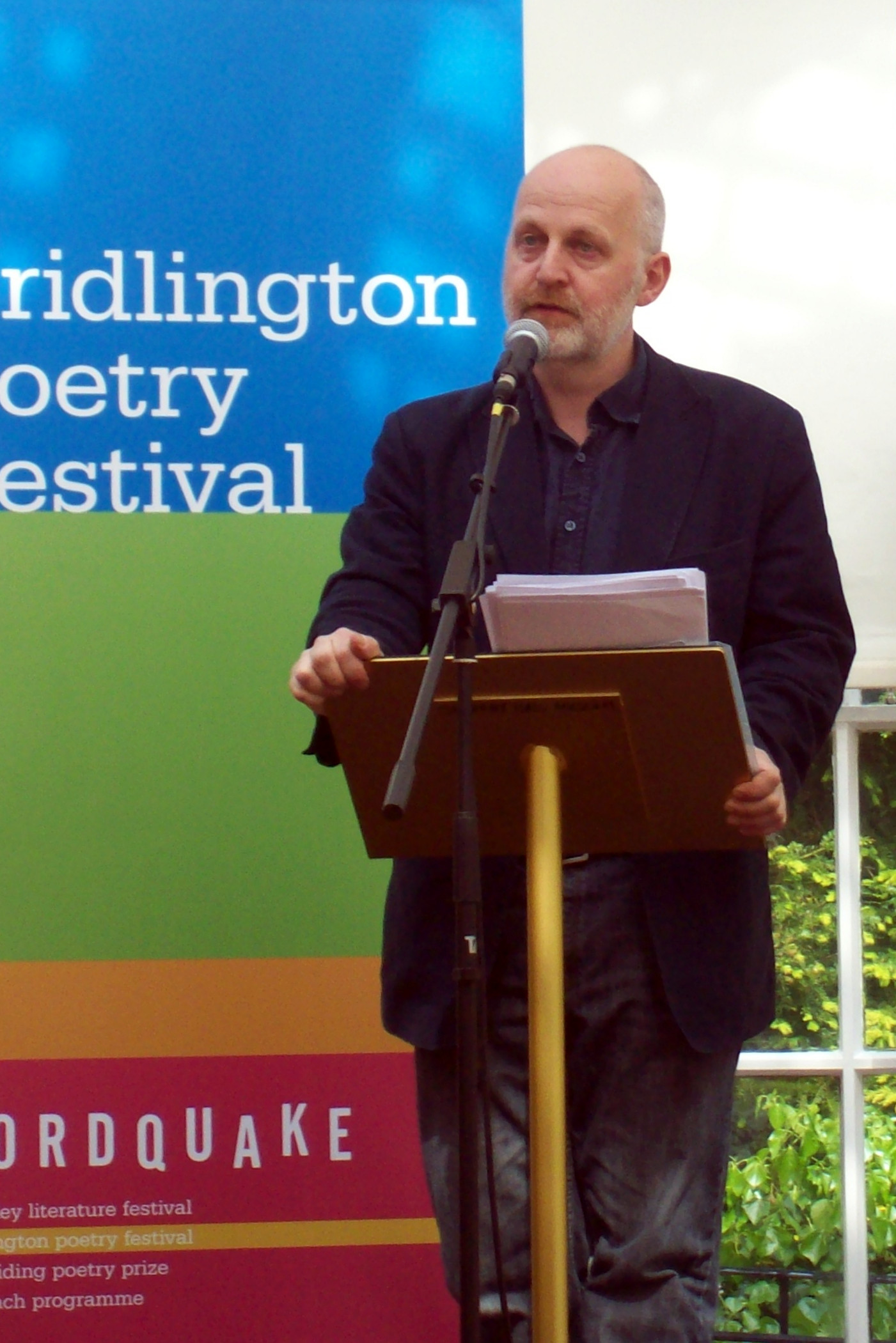 Don Paterson reads at Bridlington